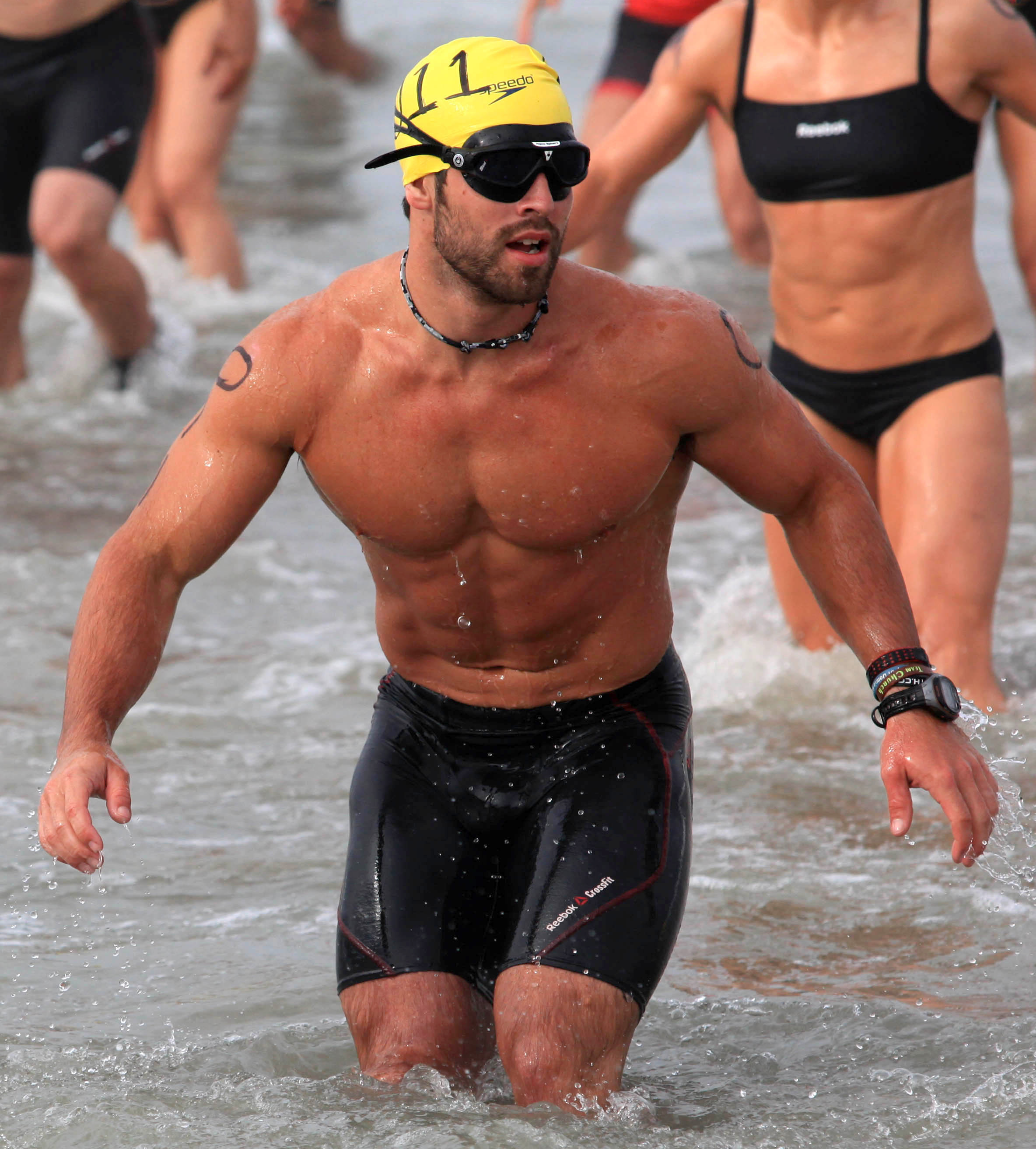 Rich Froning strategically walks backward into the water while wearing swimming fins during the 2012 Reebok CrossFit Games at Camp Pendleton’s San Onofre Beach, July 12. CrossFit athletes competed in a true test of fitness that included swimming 700-meters in the Pacific Ocean, biking 6-miles through grueling terrain, running up more than 1400 vertical feet and ending the day’s events by maneuvering their way though a Marine Corps Obstacle Course.